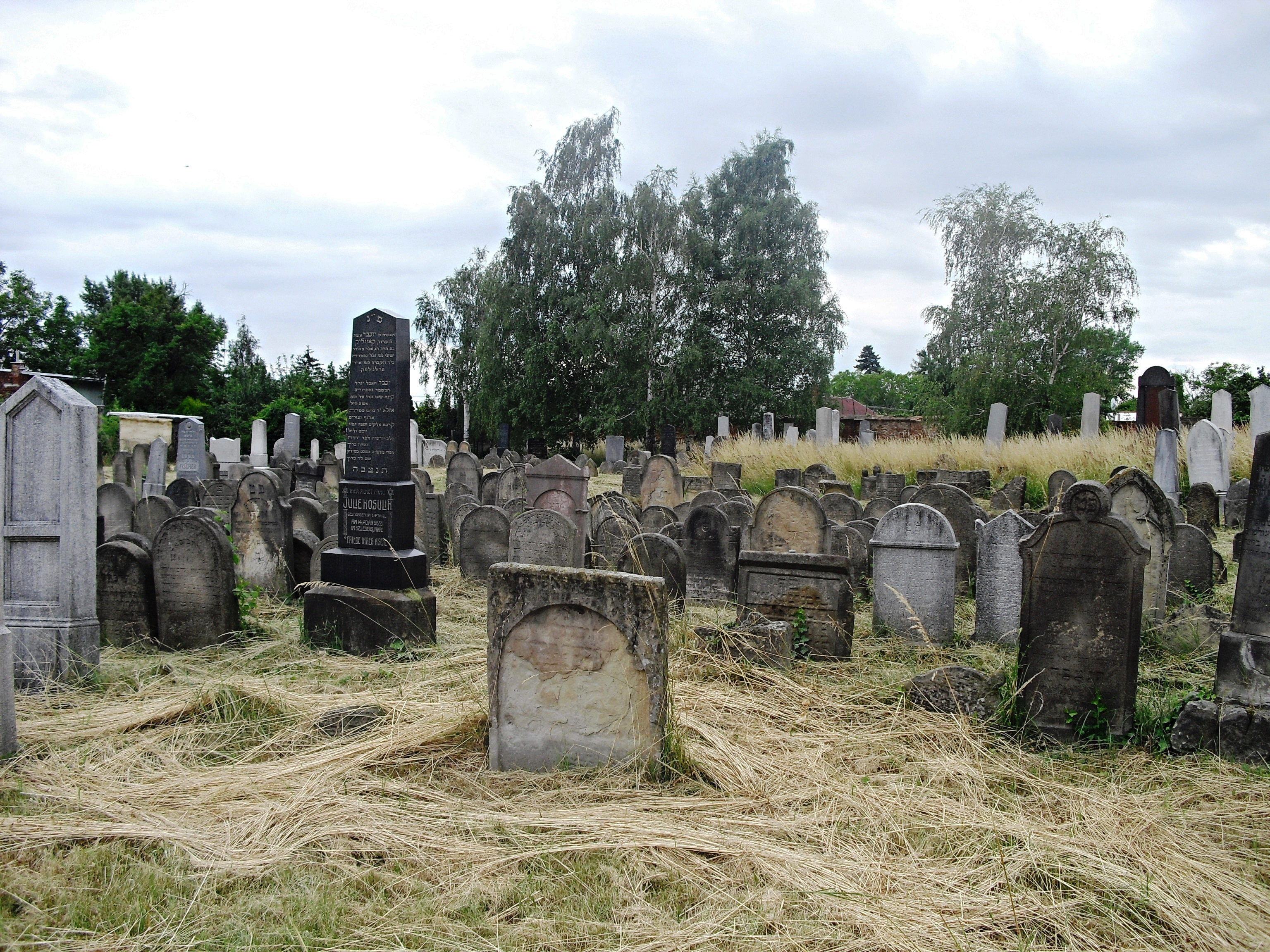 Holešov, Kroměříž District, Czechia. Jewish cemetery.